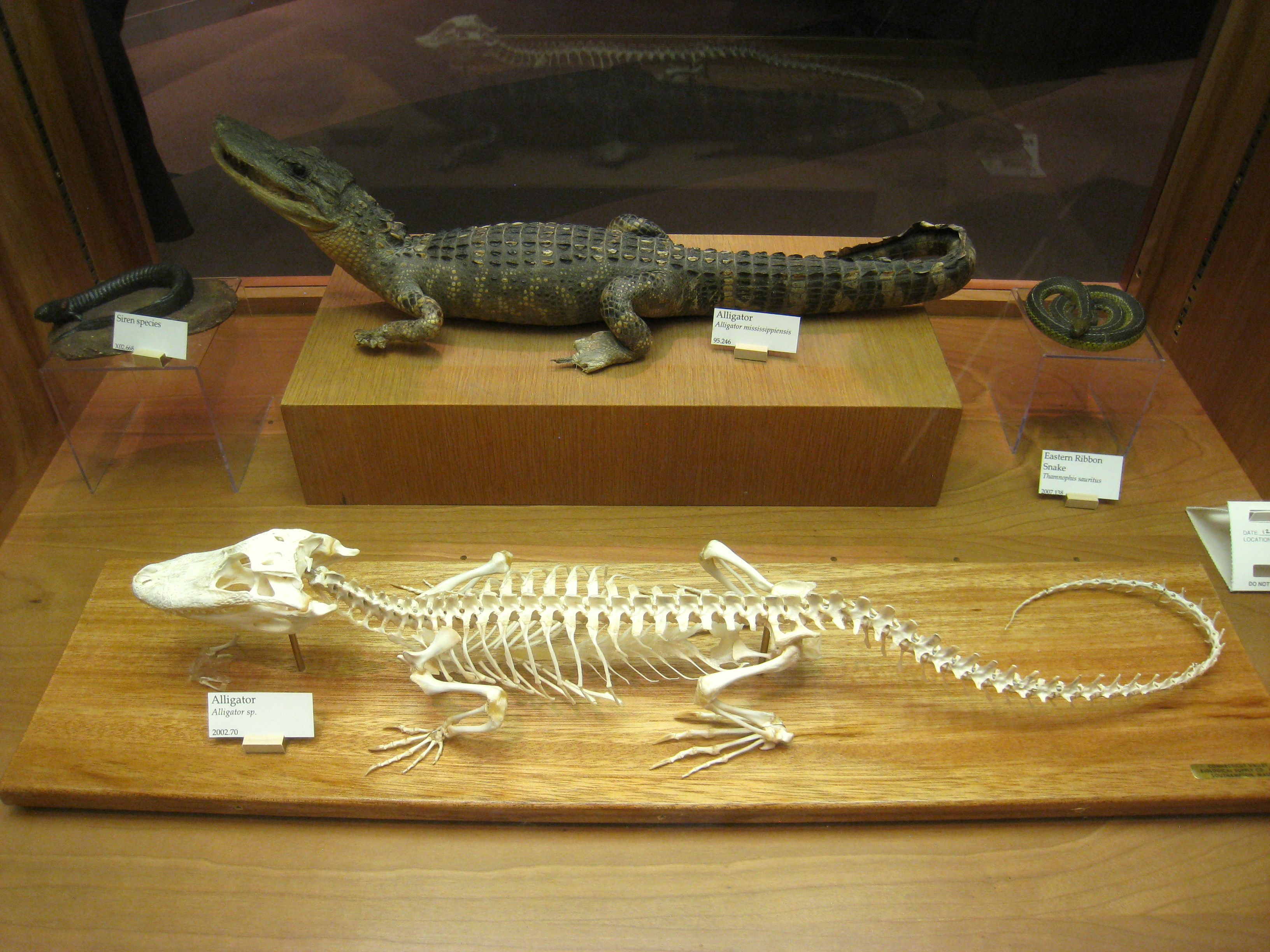 Alligator (Alligator sp.) in Museum of Science, Boston, Massachusetts, USA. Note that there was no prohibition against photography in the museum.